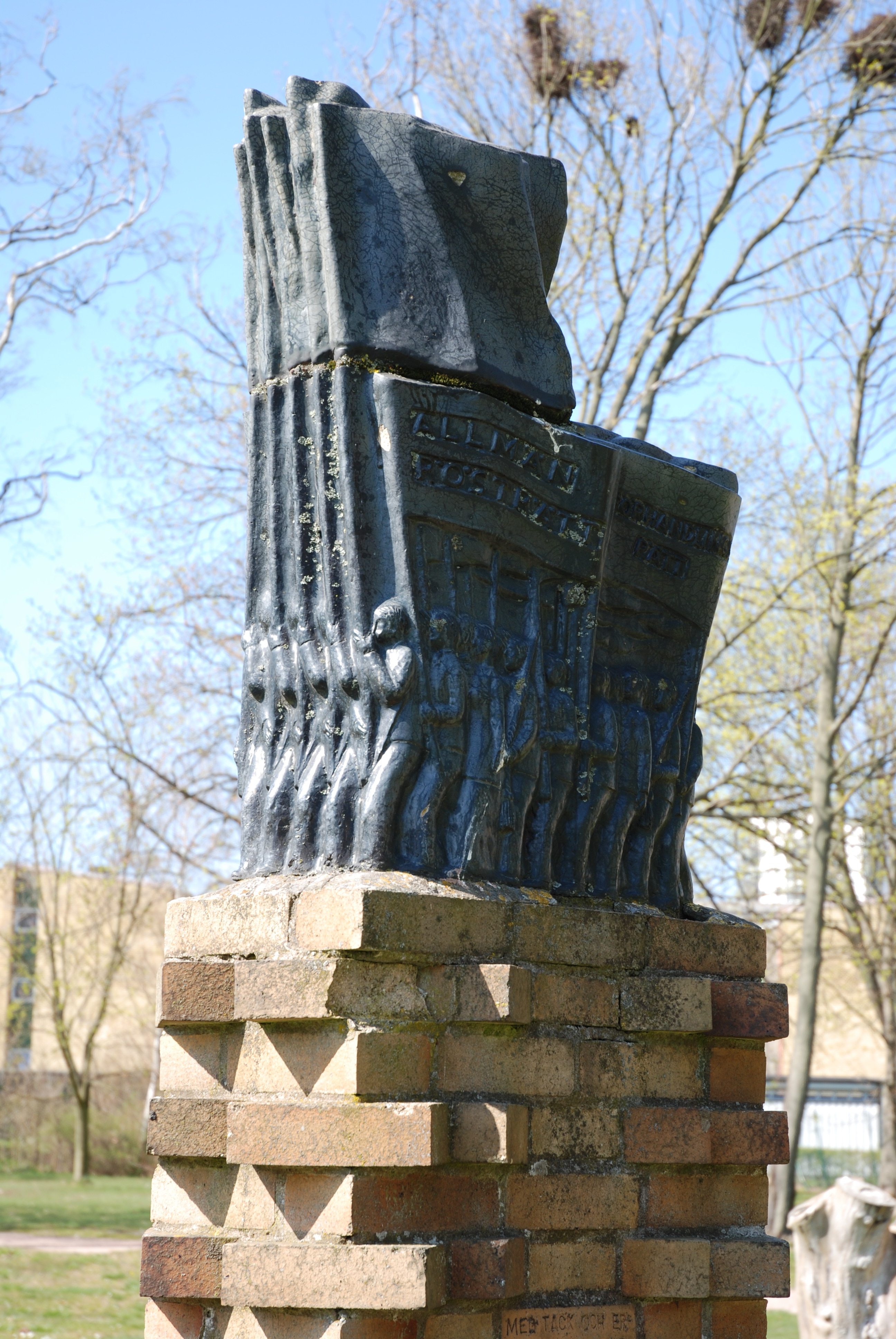 Robert Nilsson´s Demonstrationståget (Demonstration, (1956), stoneware, Höganäs, Sweden